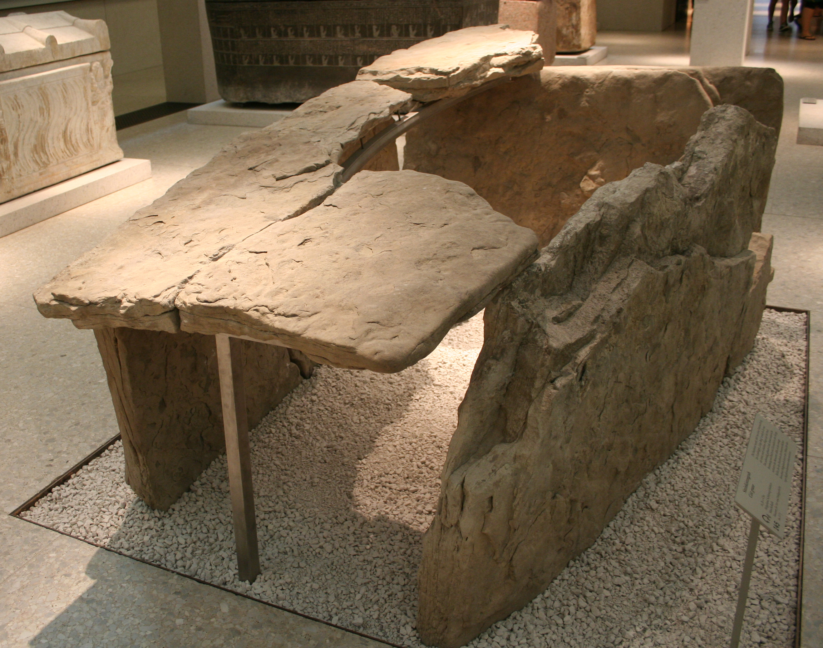 Museum für Vor- und Frühgeschichte (Museum of prehistory and early history), Berlin